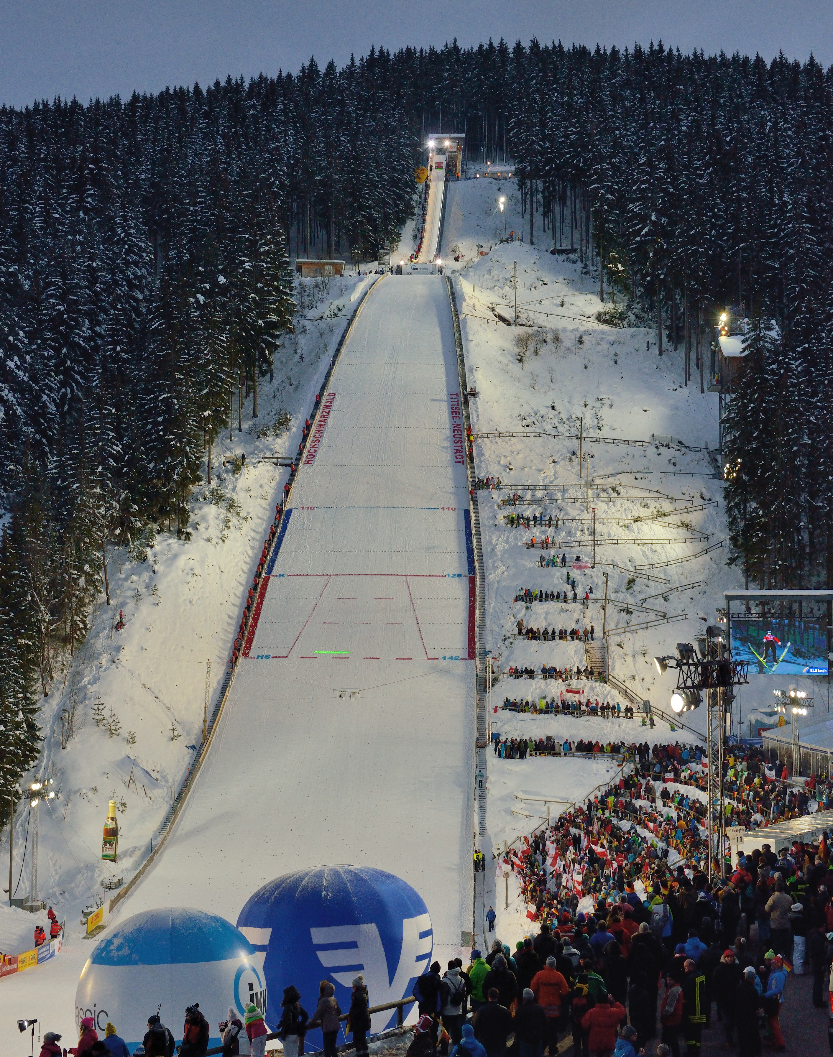 Hochfirstschanze